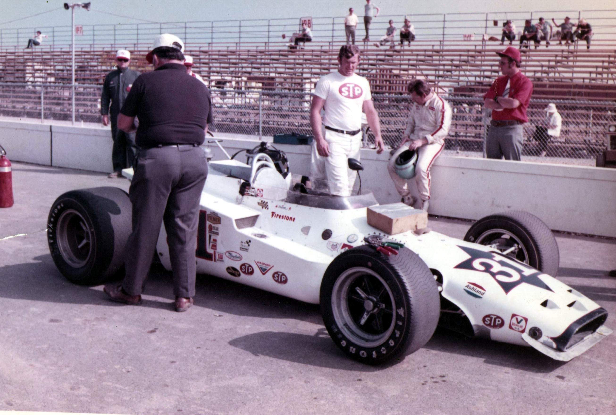 Jim Malloy's IndyCar, date and location unknown